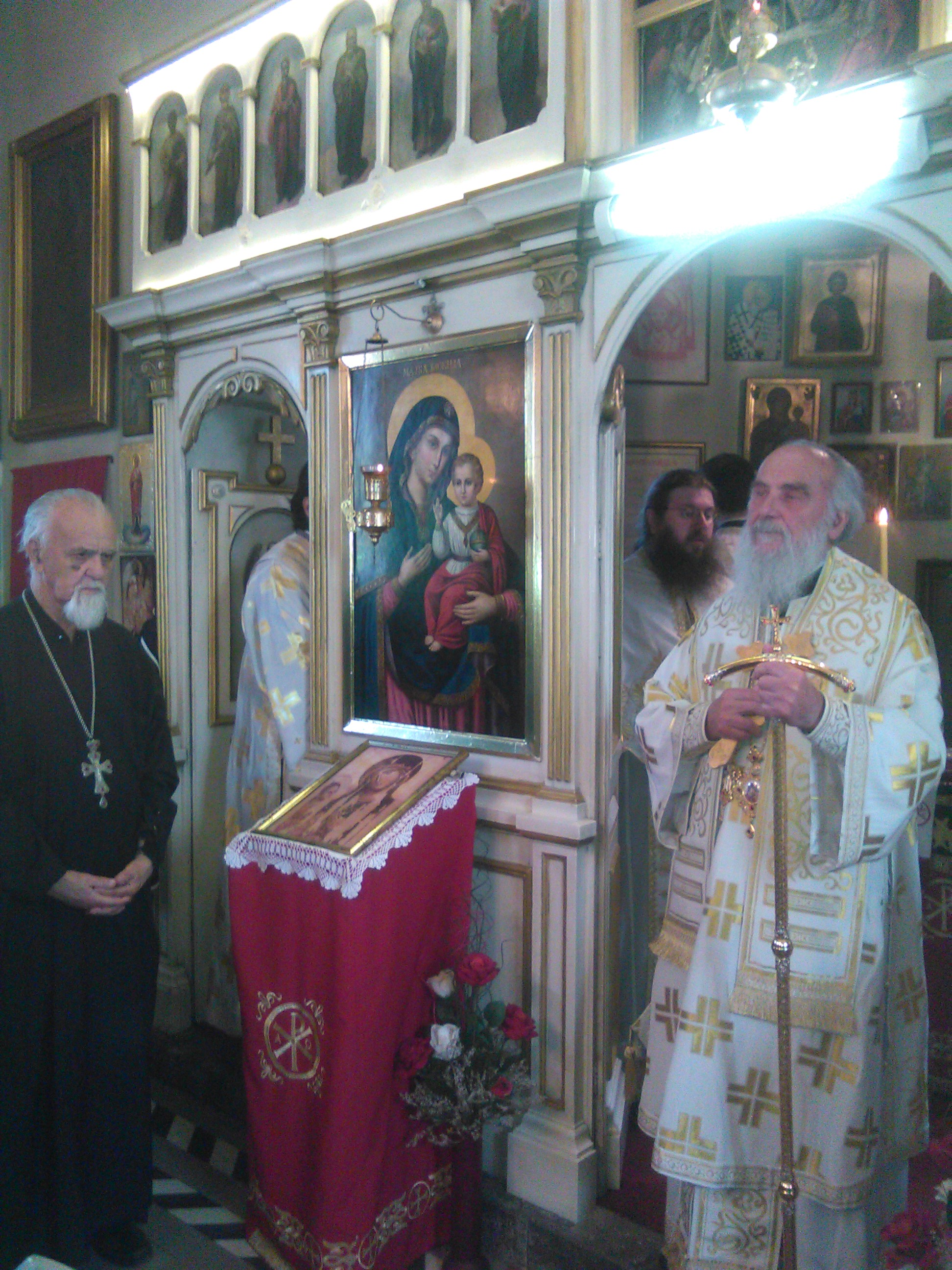 Father Dejan and Patriarch Irinej of Serbia